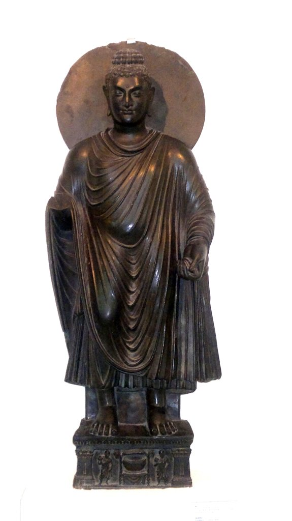 Buddha, Gandhara Art , Kushan, 2nd Cent. CE, Grey Schist Stone